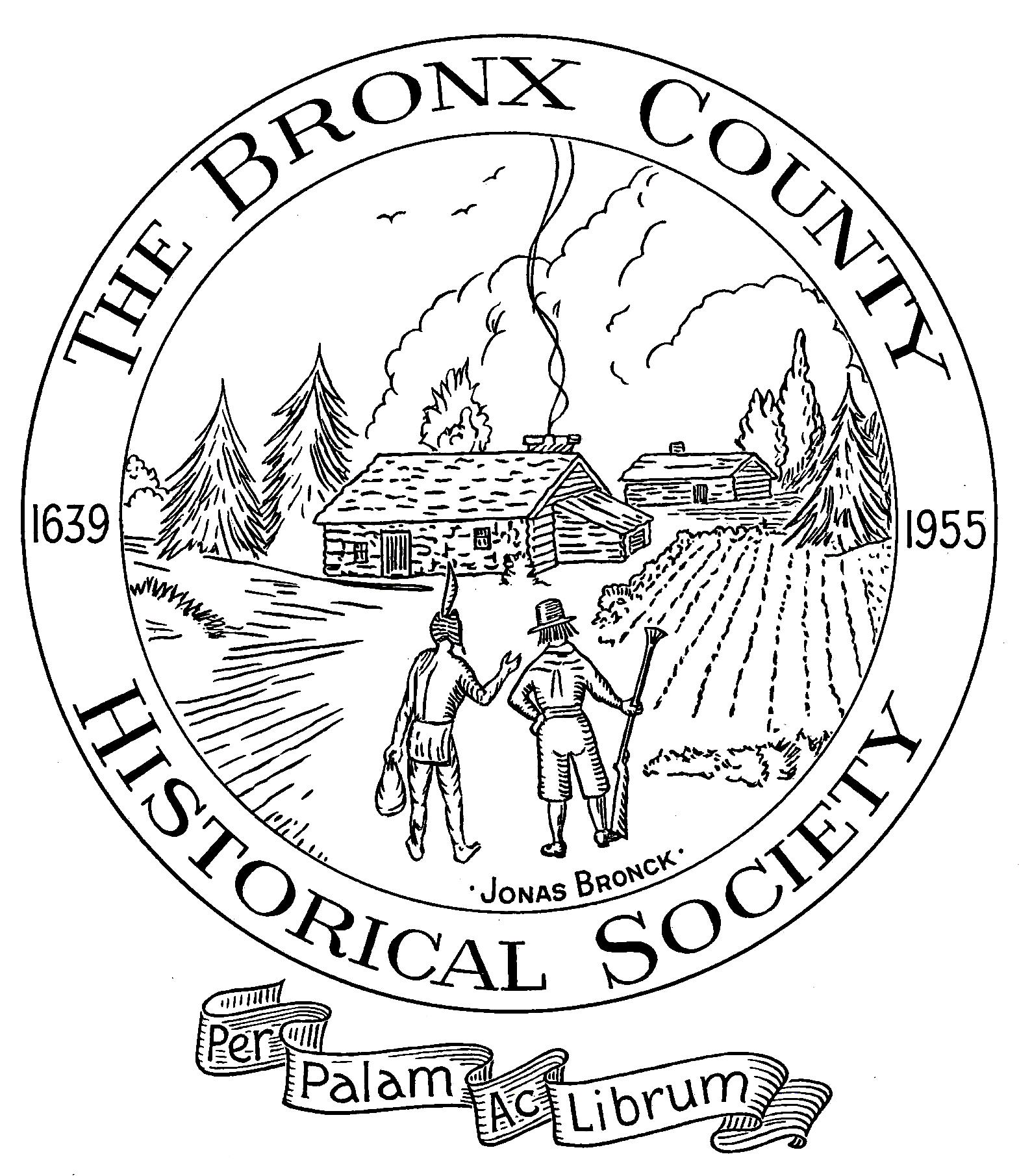 The Bronx County Historical Society's logo